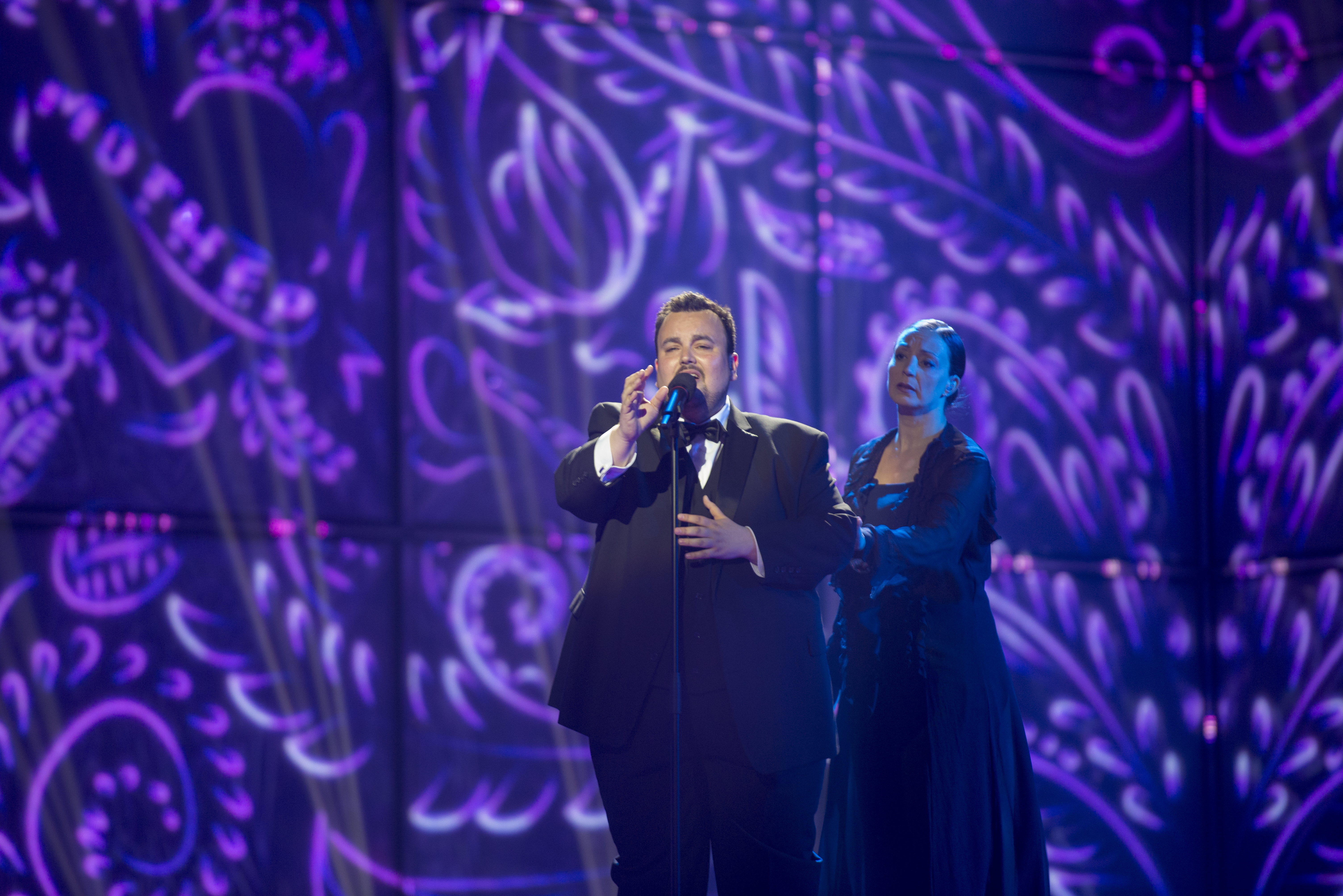 Axel Hirsoux representing Belgium with the song "Mother" during the first dress rehearsal of the first semi final of the Eurovision Song Contest 2014 Copenhagen. (Help translate this text)